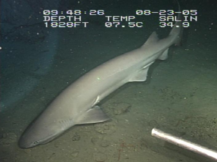 A sixgill shark (Hexanchus griseus) in the Gulf of Mexico.